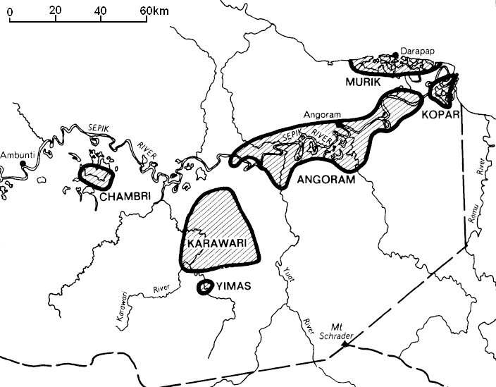 Nor-Pondo languages of East Sepik (PNG) [based on Foley (2002)]